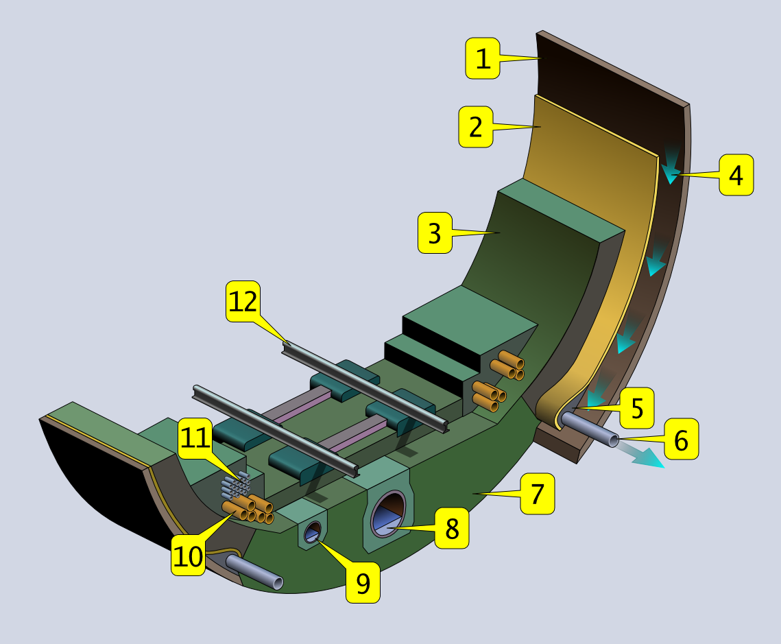 1-Initial support; 2-Impermeable layer; 3-Tunel arch (inner shell); 4-Groundwater; 5-Drainage rubble; 6-Arch drainage; 7-Base of cast-in-place concrete; 8-Groundwater collecting pipe (600mm); 9-Tunnelwater collecting pipe (250mm); 10,11-Cable collector; 12-Rails